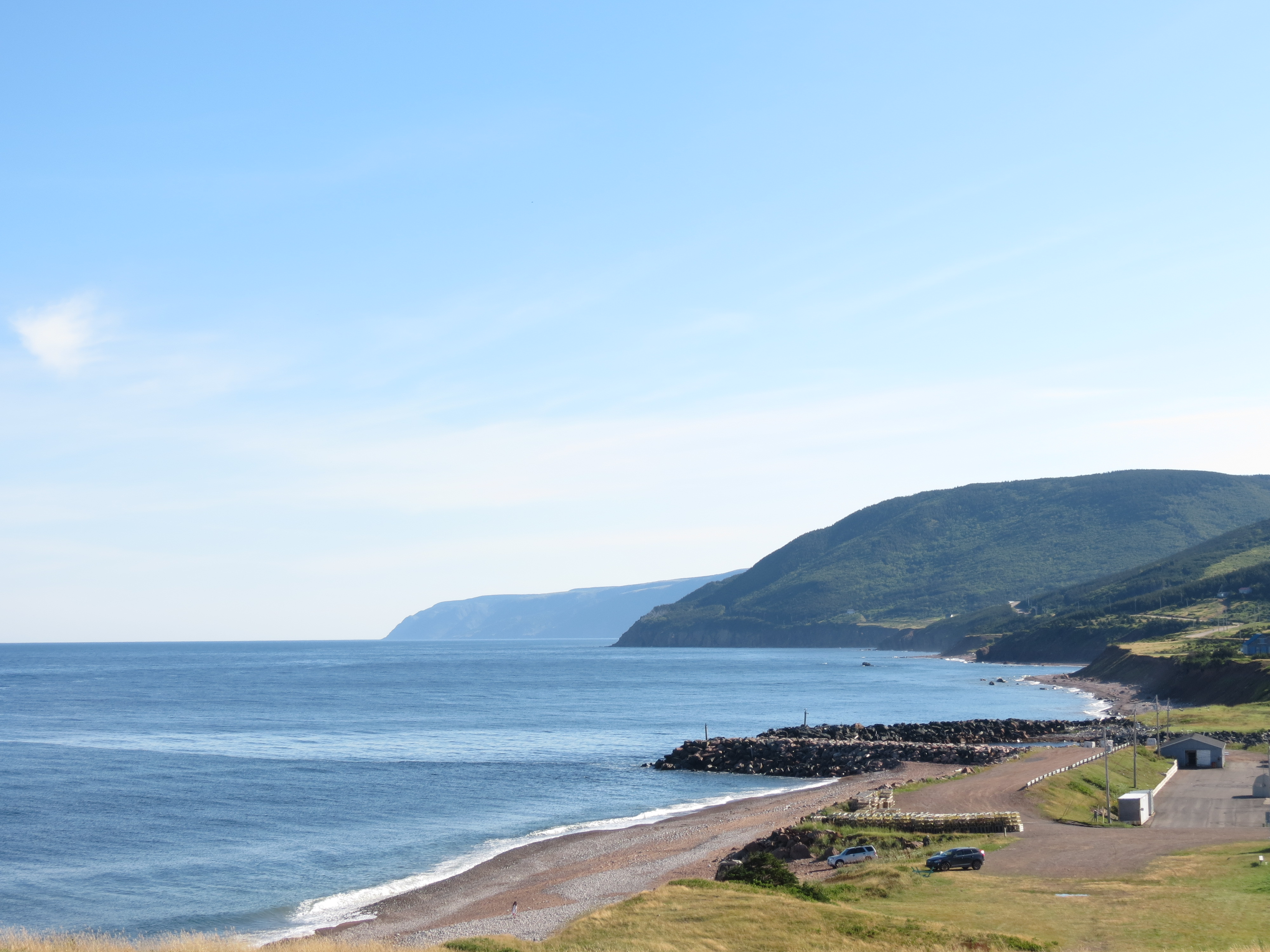 Gulf of Saint Lawrence at Pleasant Bay, NS